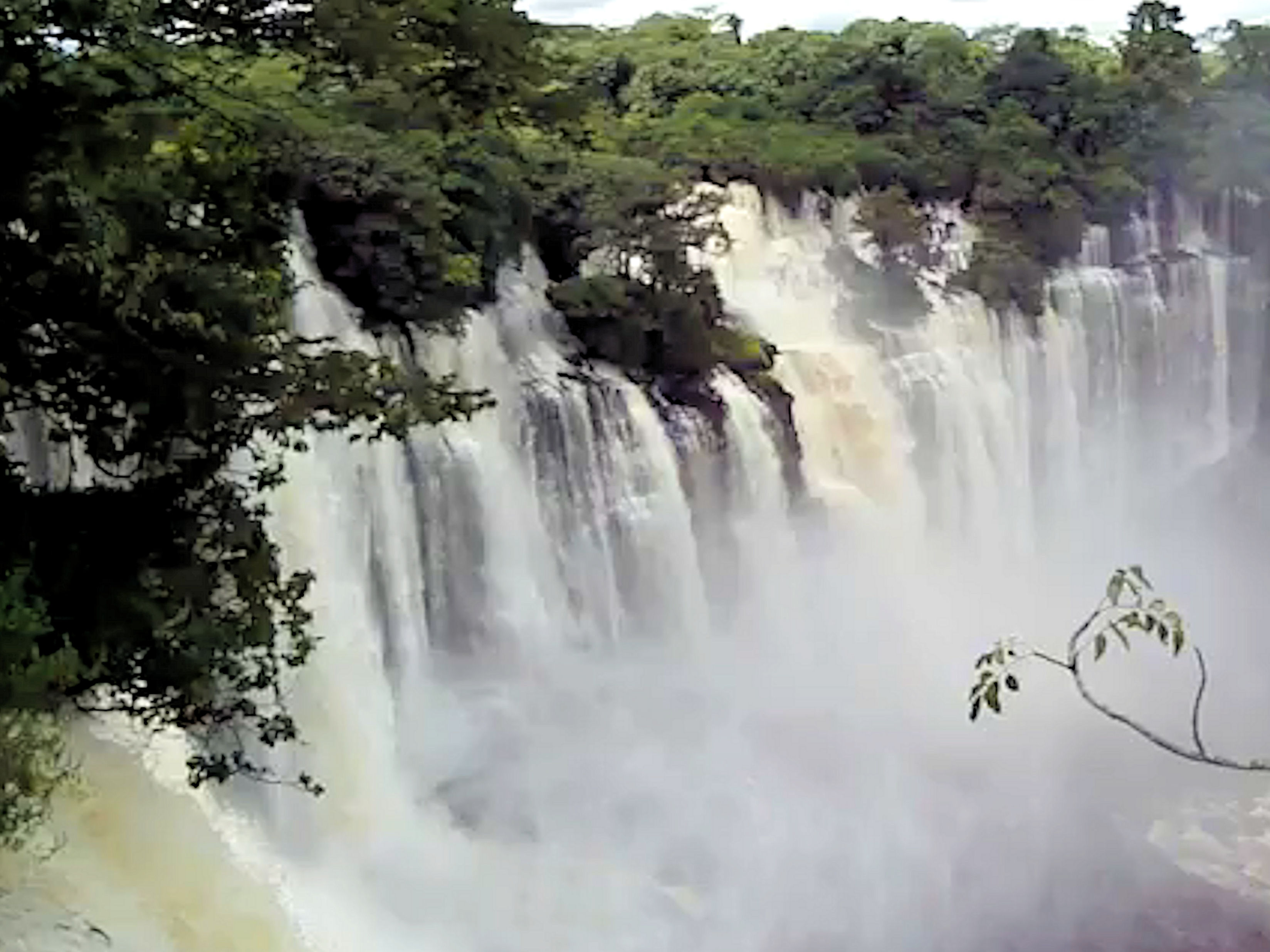 Kalandula Falls